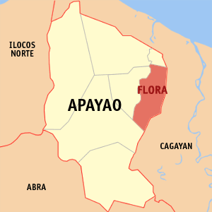 Map of Apayao showing the location of Flora